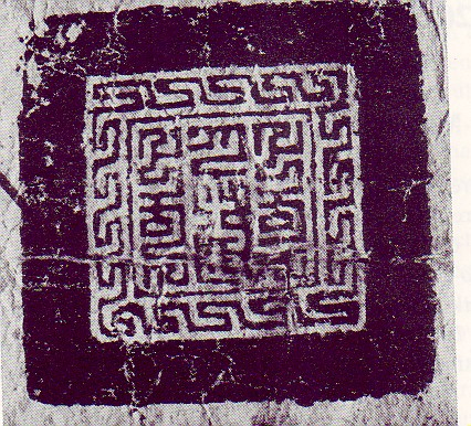 Official Seal of Khangchenne bSod nams rgyal po